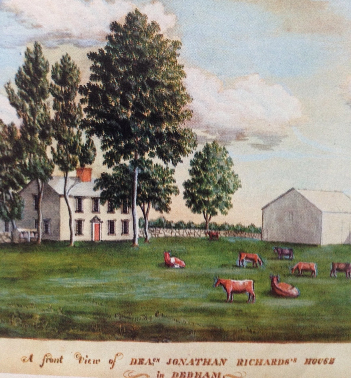 A front view of the Broad Oaks estate in Dedham, Massachusetts, the home of Deacon Jonathan Edwards.